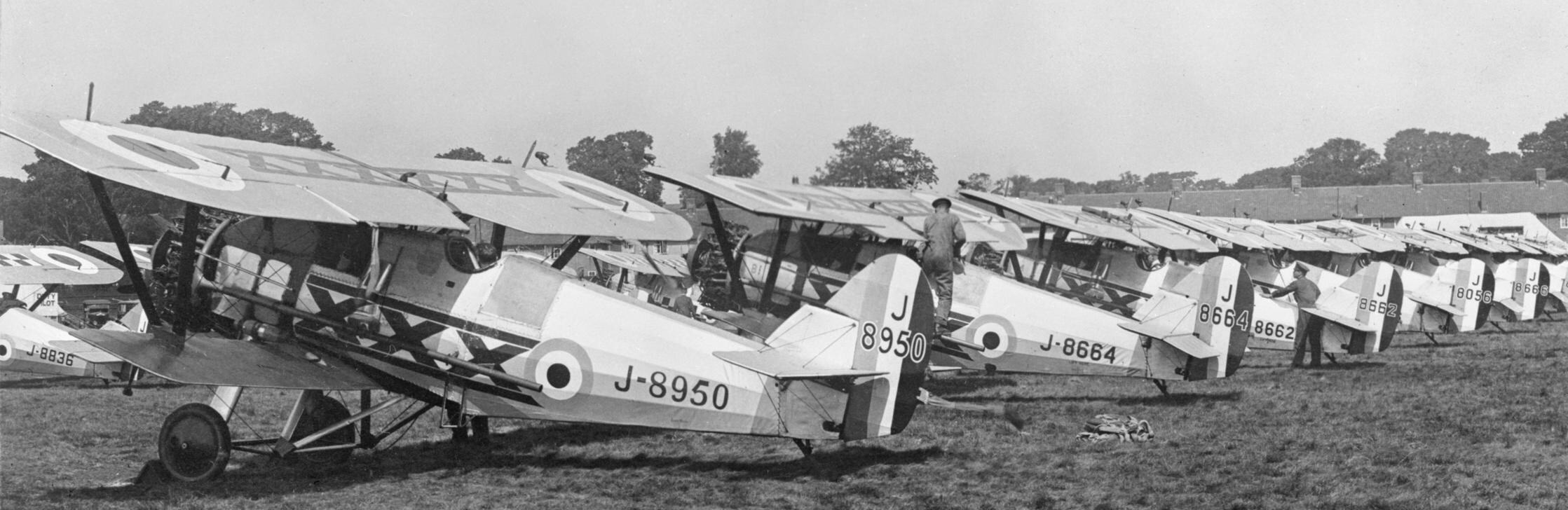 Squadron lineup of Siskin Fighters